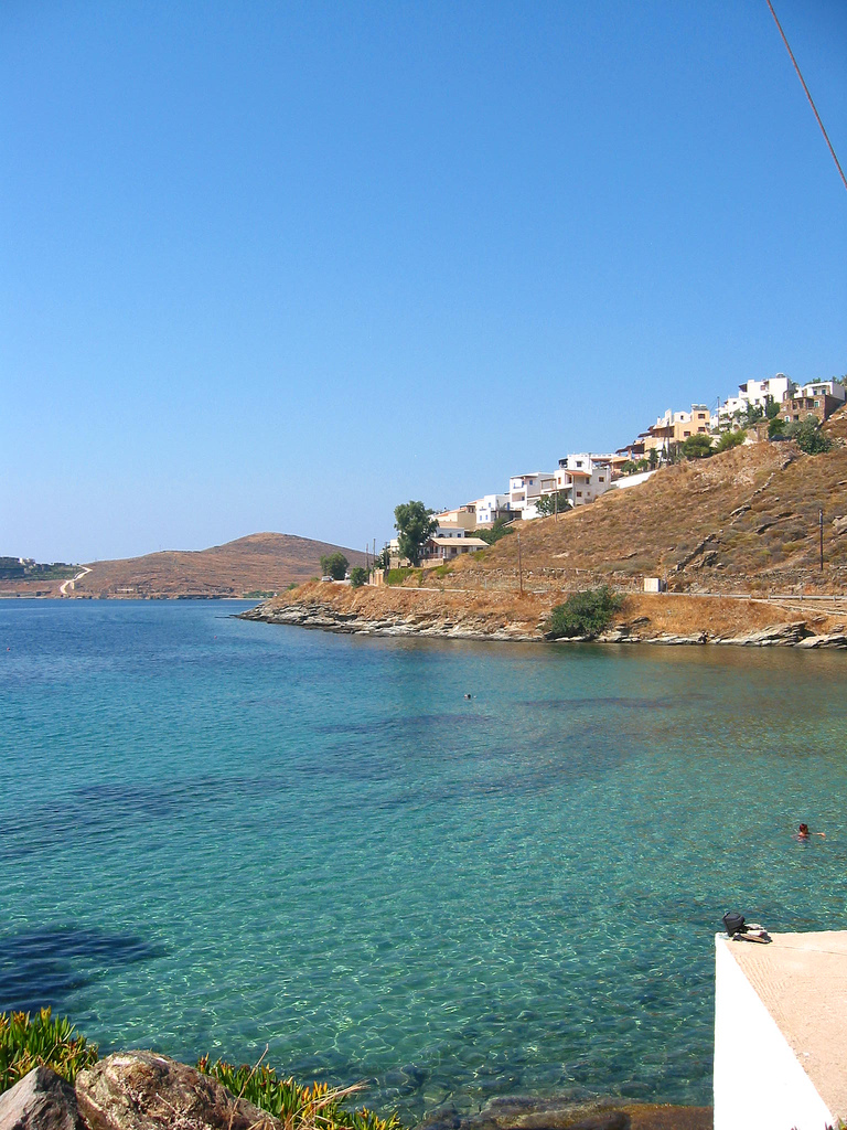 A beach in Kea (Tzia) island, Greece (Greece: I highly recommend it to beach lovers.)